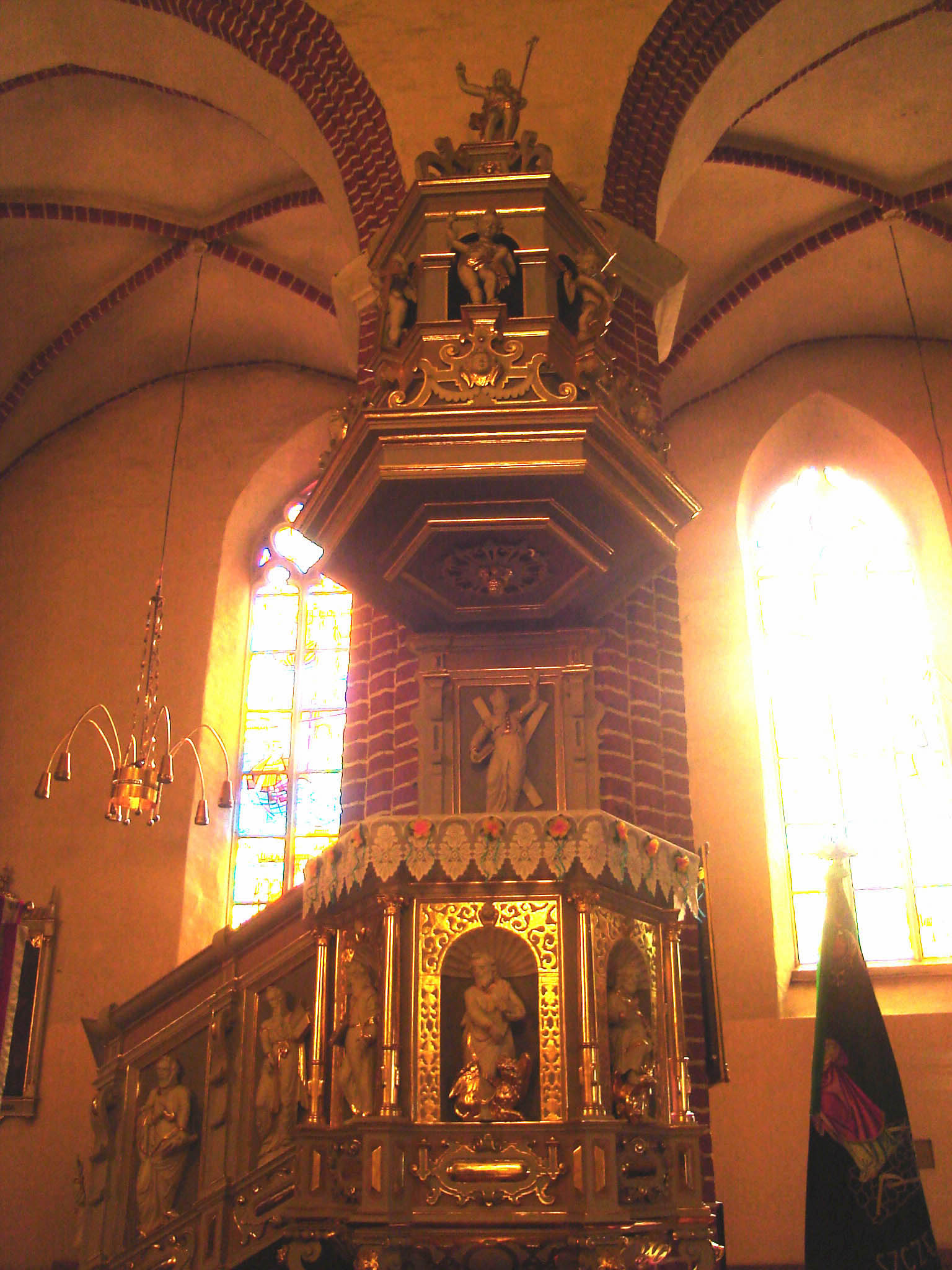 Pulpit (church ambo) in church of Madonna from Częstochowa in Lubin (Poland).